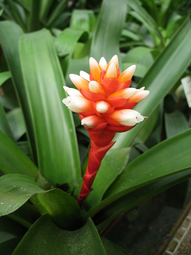 Guzmania musaica, in cultivation at the Botanical Garden of Heidelberg, Germany.